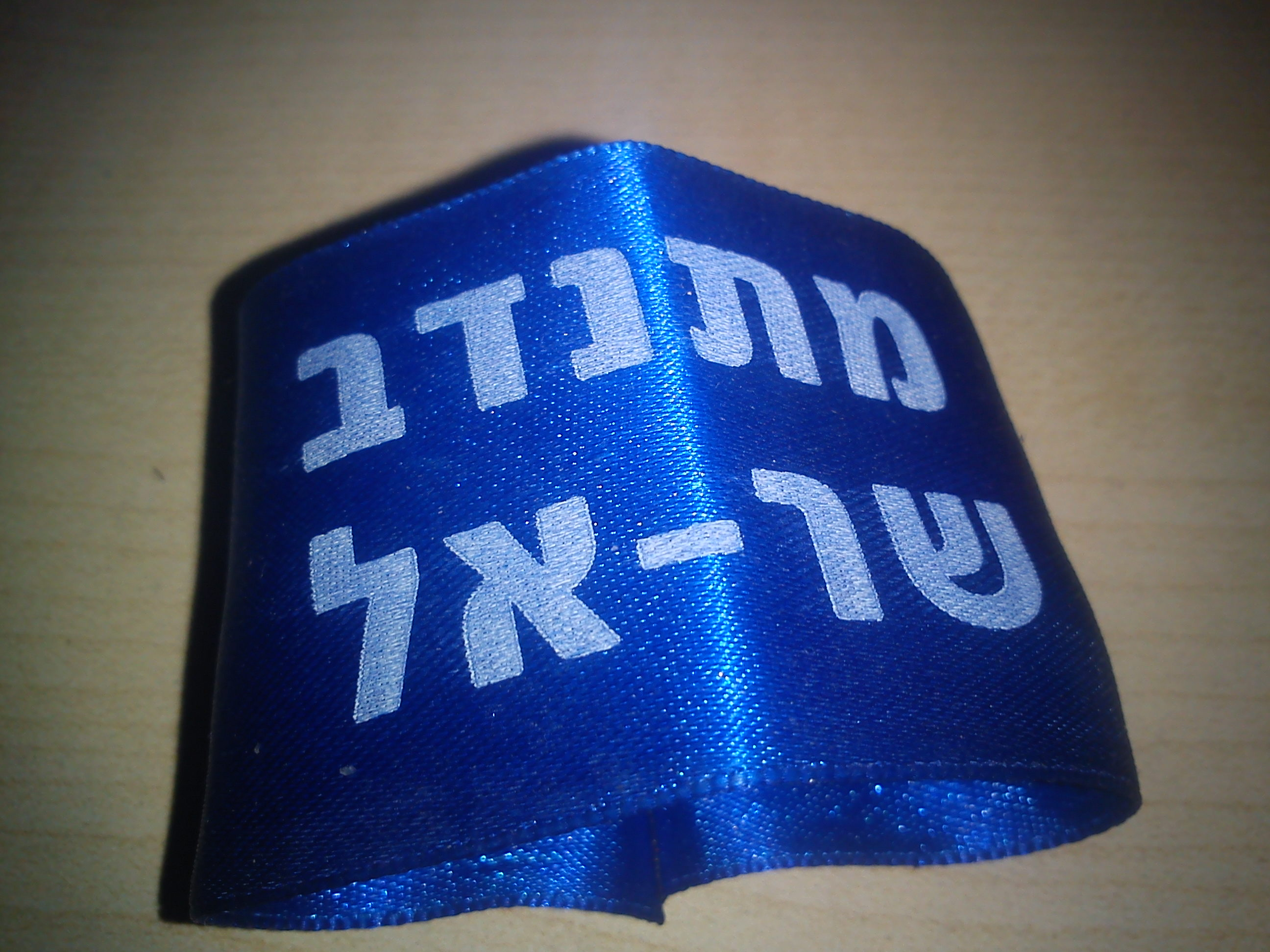 epaulette for Sar-El program